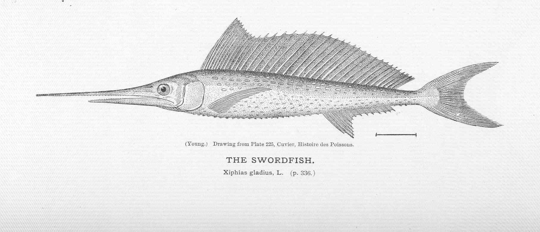 Swordfish (Yount) Xiphias gladius, L. Subject: Swordfish Tag: Fish